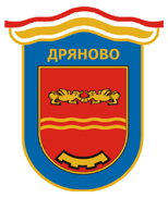 Coat of arms of Dryanovo, Bulgaria